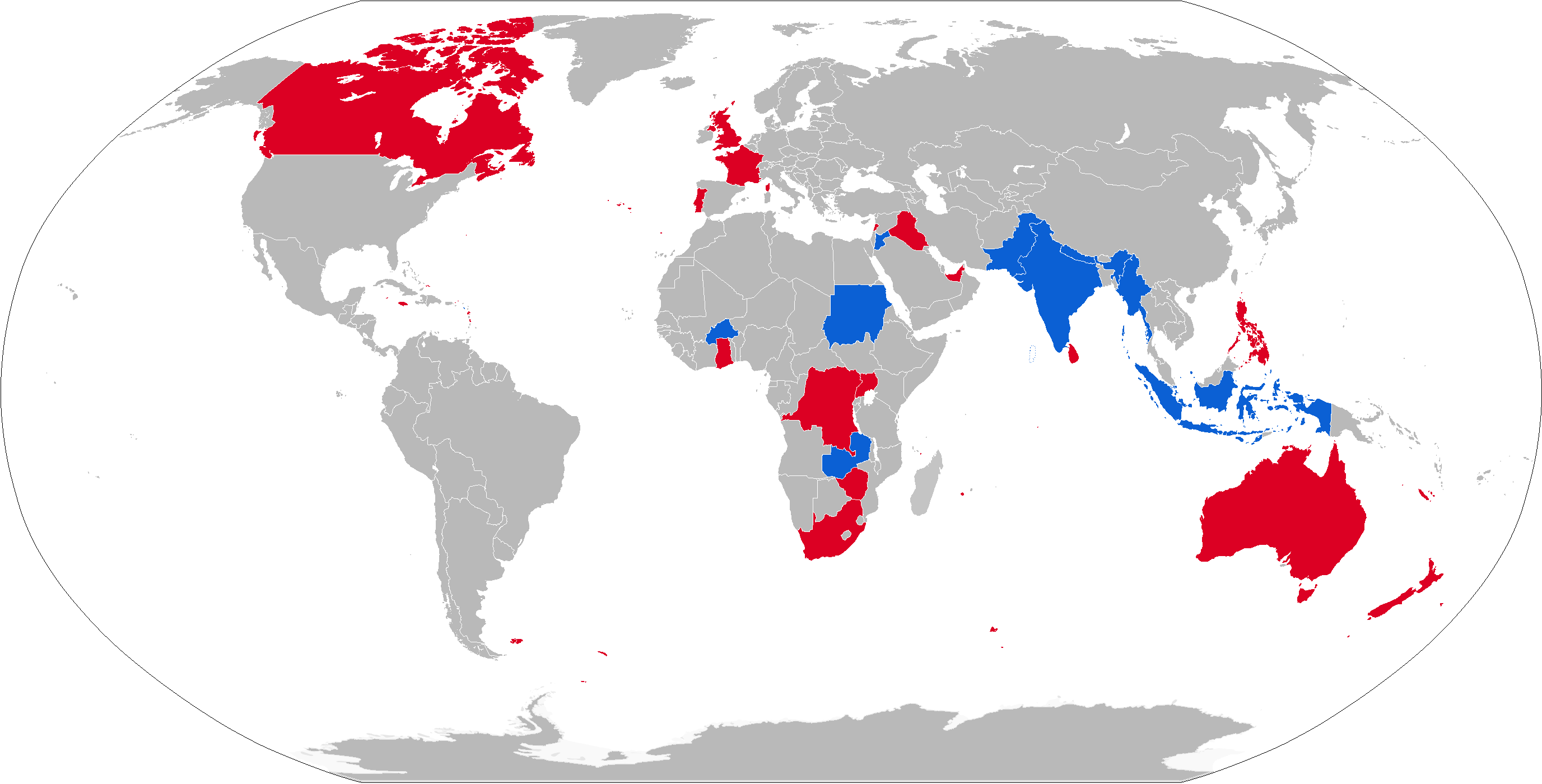 Map of Ferret operators in blue with former operators in red